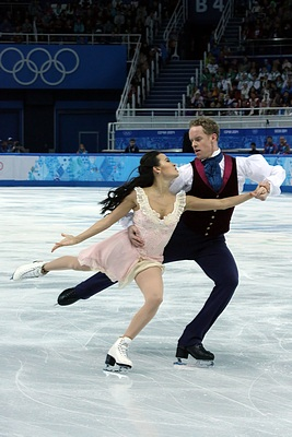 Madison Chock and Evan Bates at the 2014 Winter Olympics